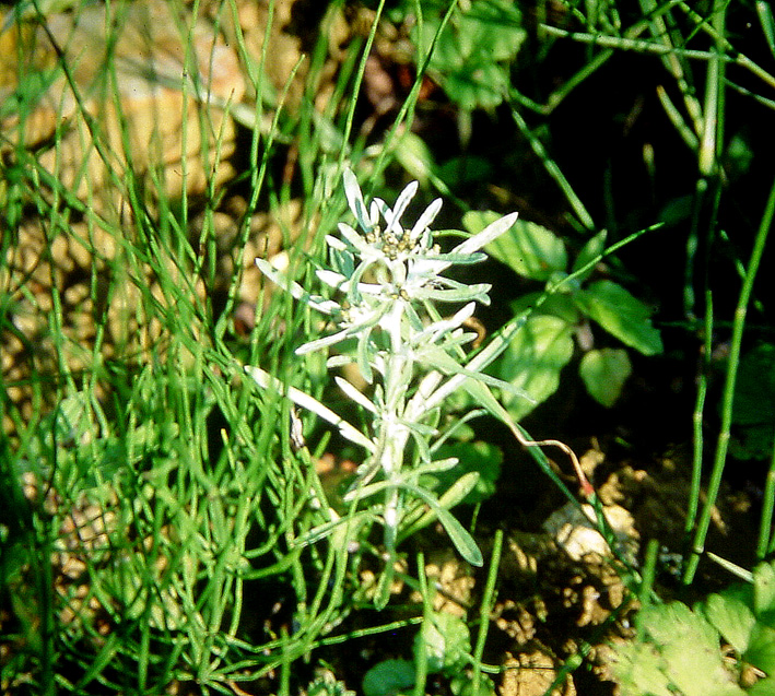 Gnaphalium uliginosum in Blendecques, in the Nord-Pas-de-Calais region (North of France).